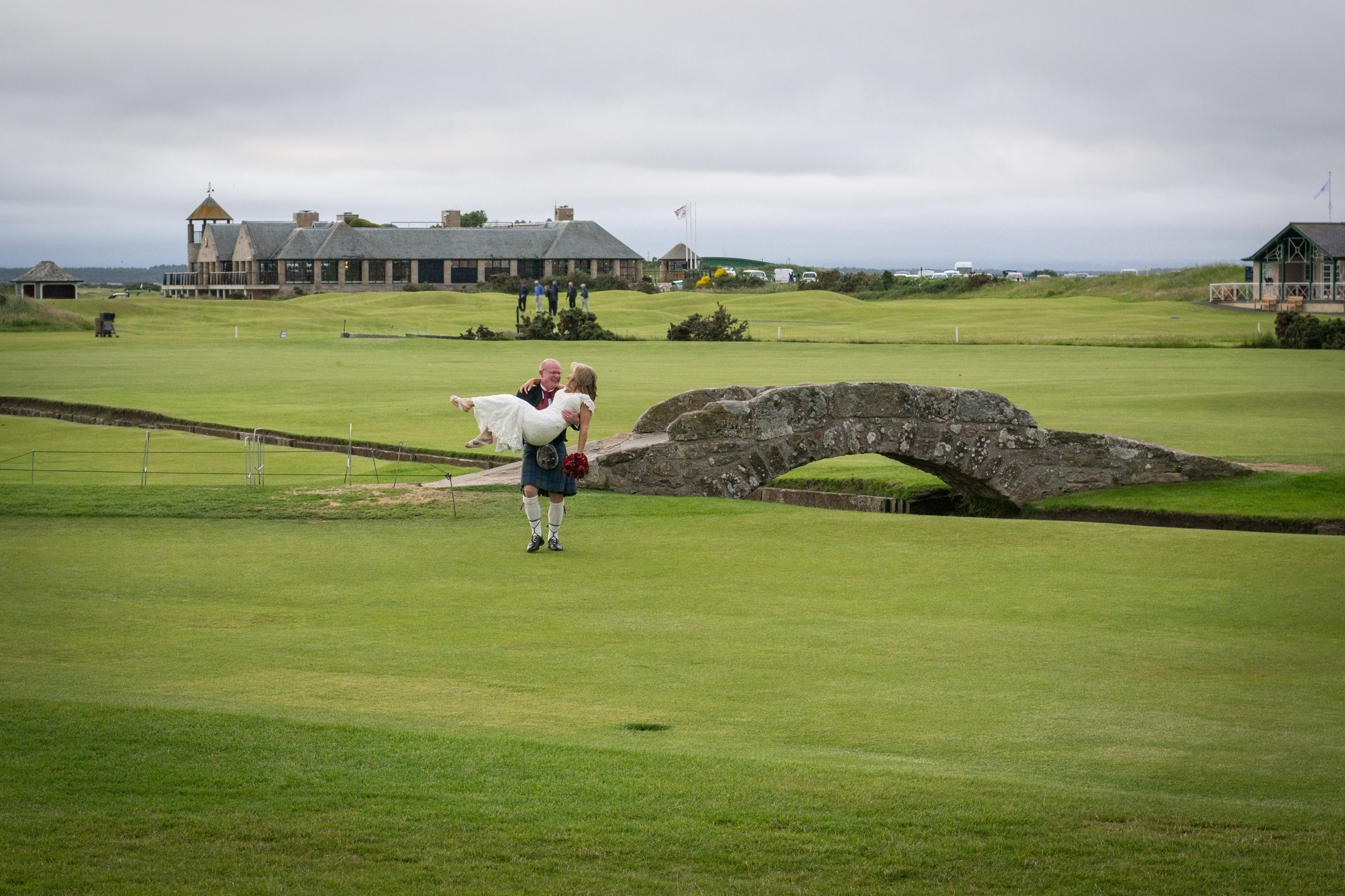 The Swilken Bridge is a popular photo site on the 18th fairway of the Old Course.